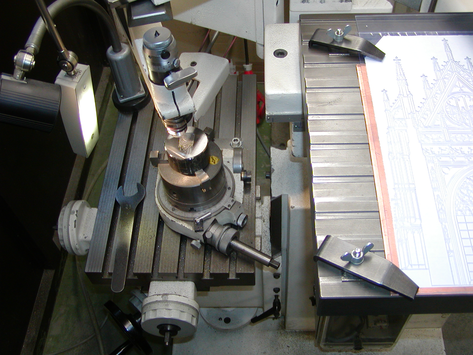 engravingmachine